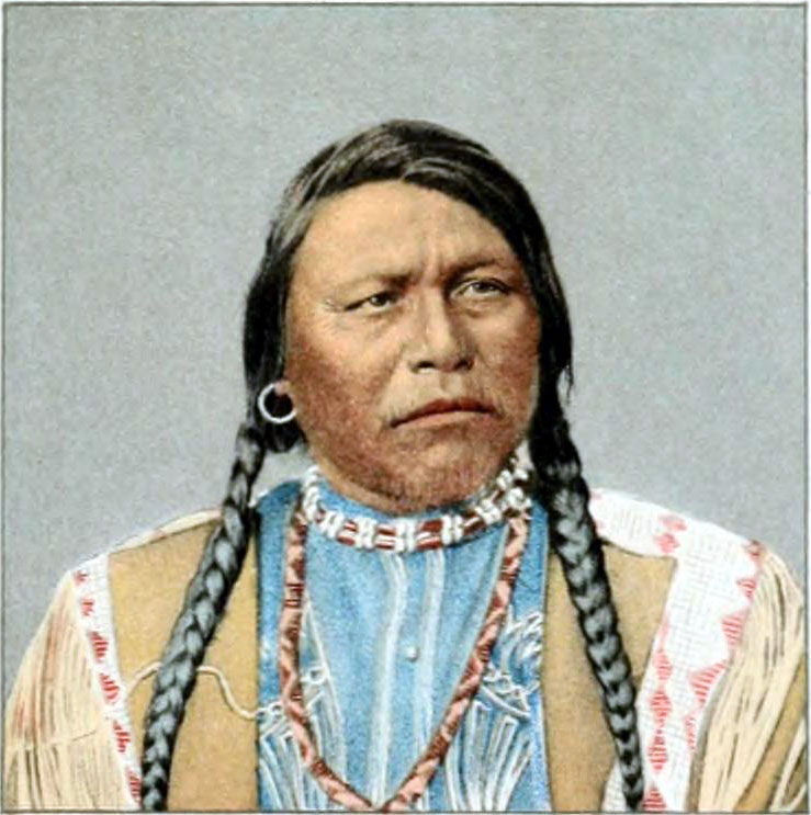 OURAY. SHOSHONEAN FAMILY. UTE TRIBE - A MOUNTAIN INDIAN.